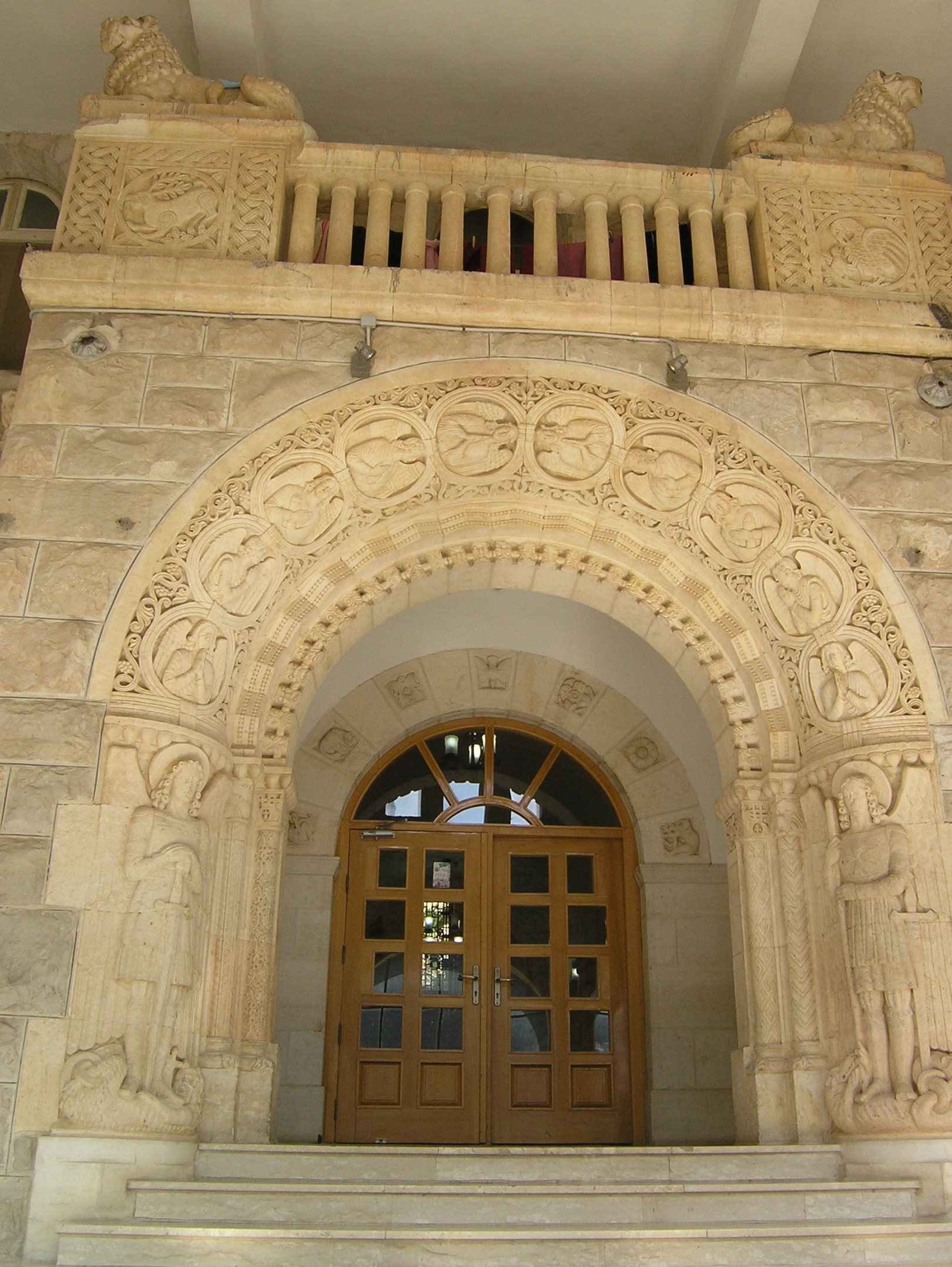 Augusta Victoria Hospital, Jerusalem (Mount of Olives), Art Nouveau Portal